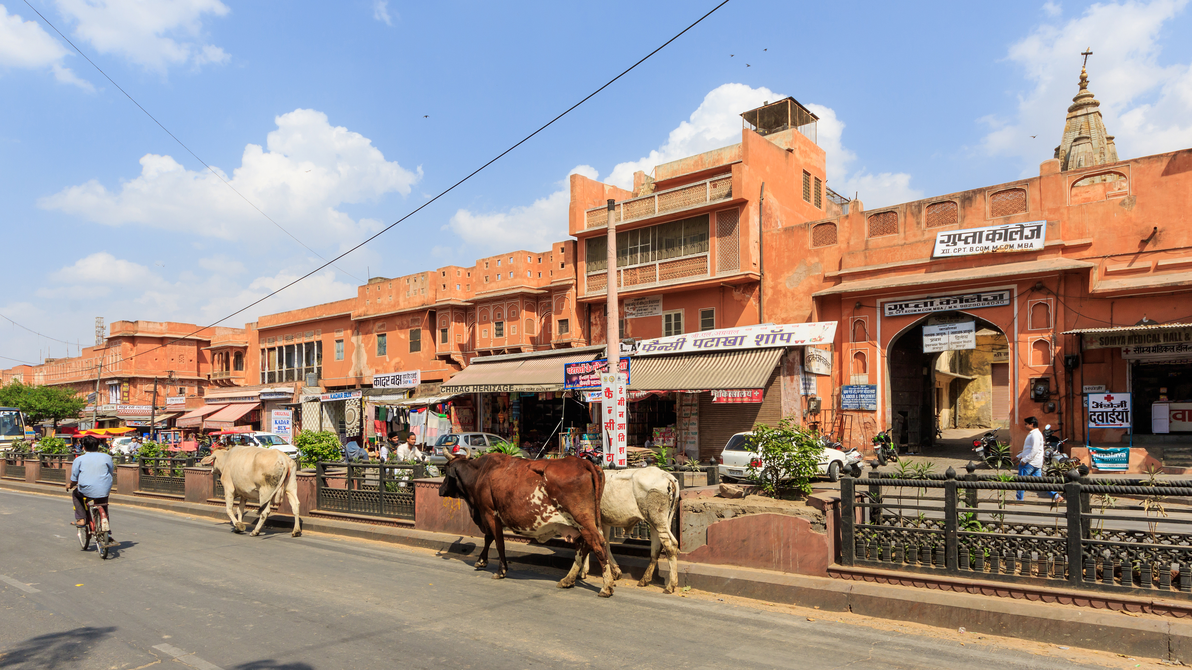 Hawa Mahal Road at the City Palace in Jaipur, India